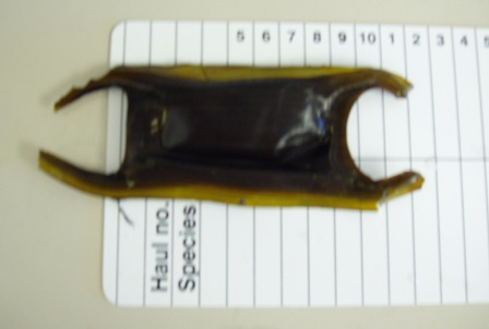 Egg case of the Roughtail skate